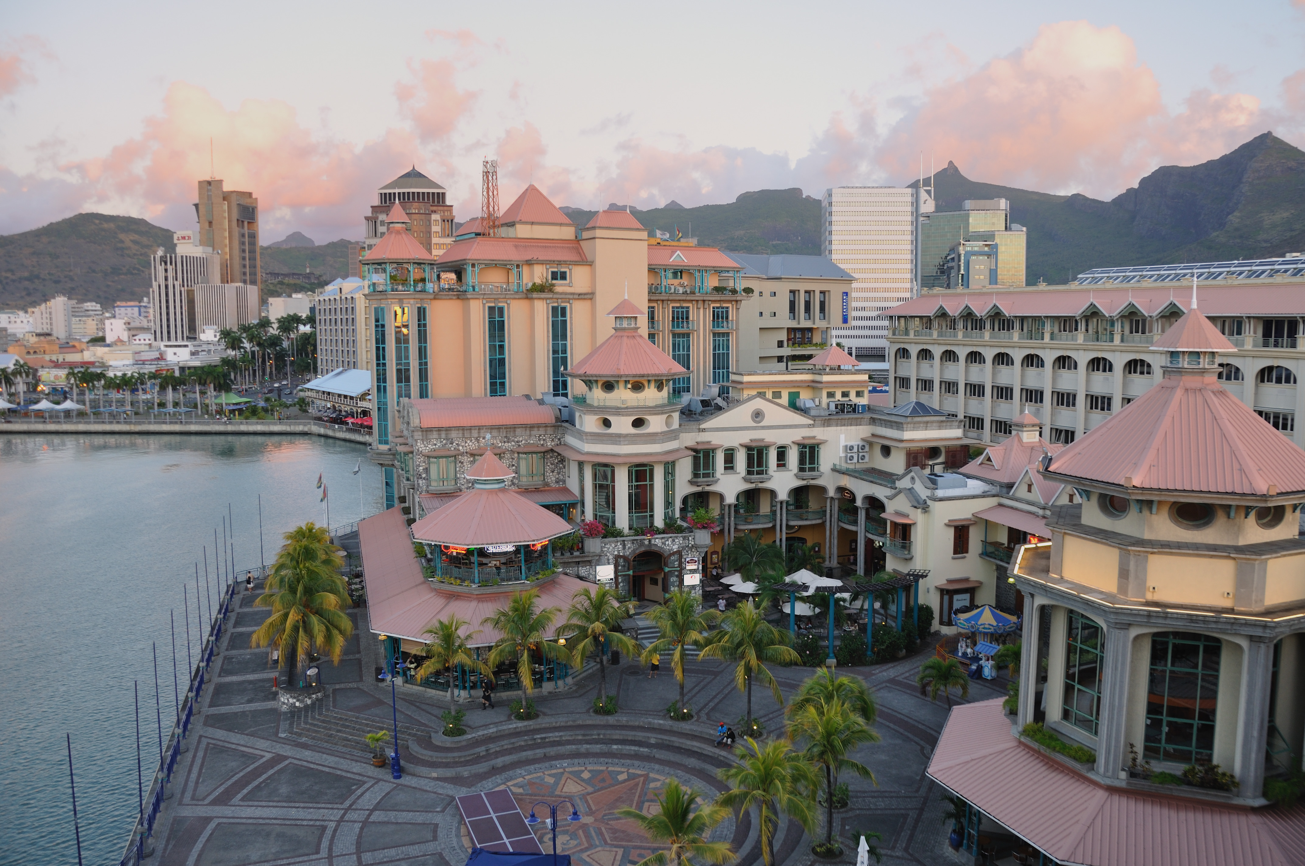 Mauritius, Evening at Port Louis waterfront